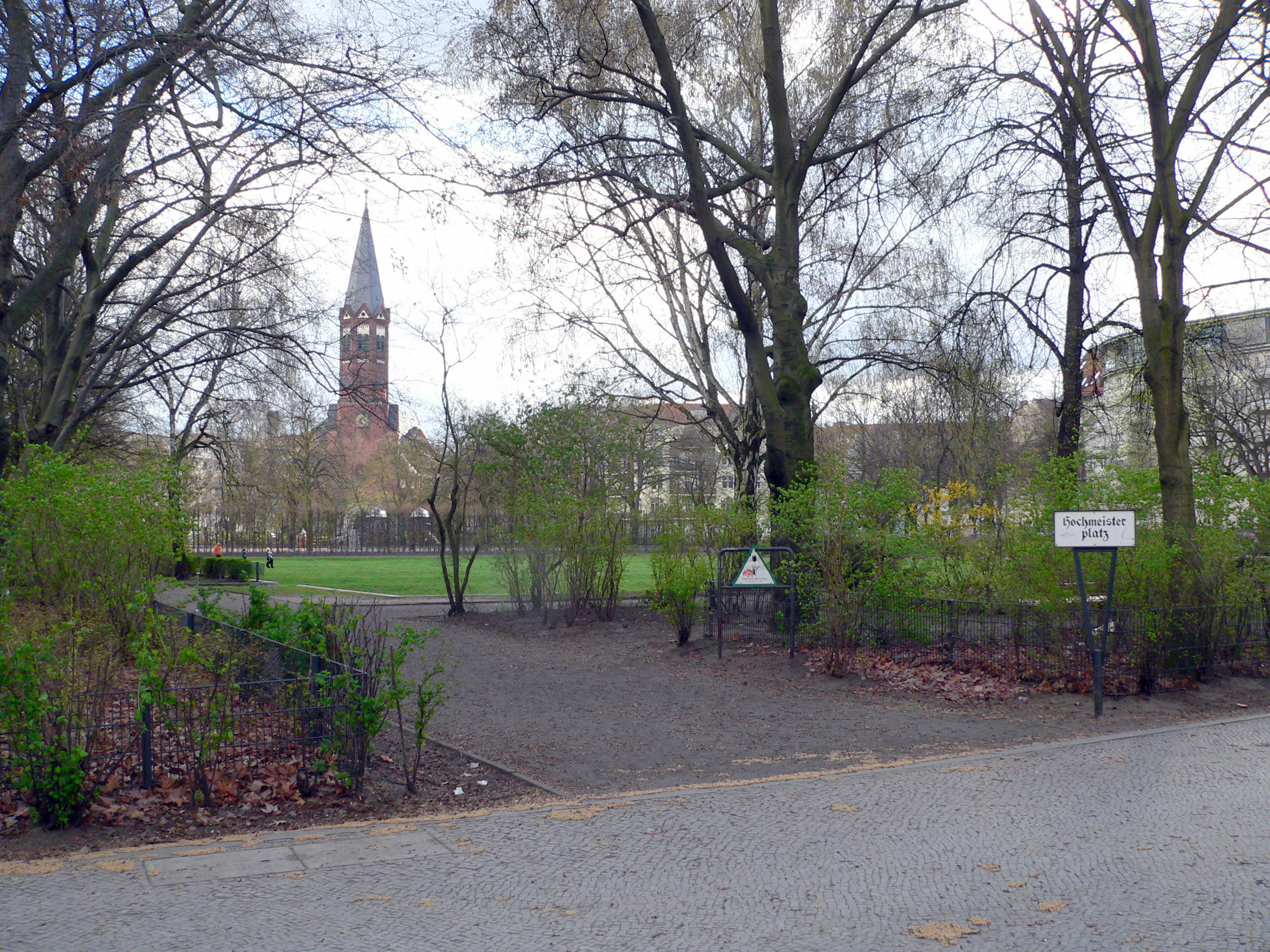 Berlin-Halensee Hochmeisterplatz